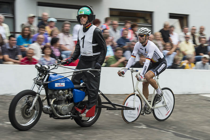 European Championship Stayer 2013 1. Vorlauf,EM,Europameisterschaft der Steher,Florian Fernow,Peter Bäuerlein,Radrennbahn Nürnberg,Radrennen,Radsport,Reichelsdorfer Keller,Stayer,Steher,Steherrennen